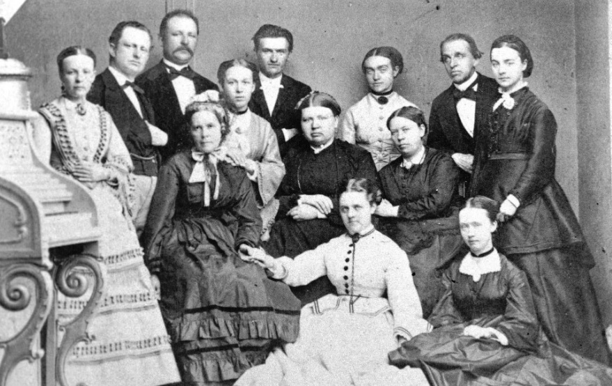 Swedish teacher and a pioneer in the care for people with intellectual disabilities, Emanuelle Carlbeck (1829-1901). Carlbeck is sitting in the middle row, far right.